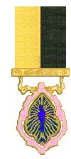 Thai Order of Vajira Mala